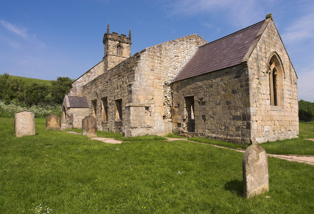 Ruin of St Martin's parish church, Wharram Percy, Ryedale, Yorkshire: view from the southeast, showing the chancel